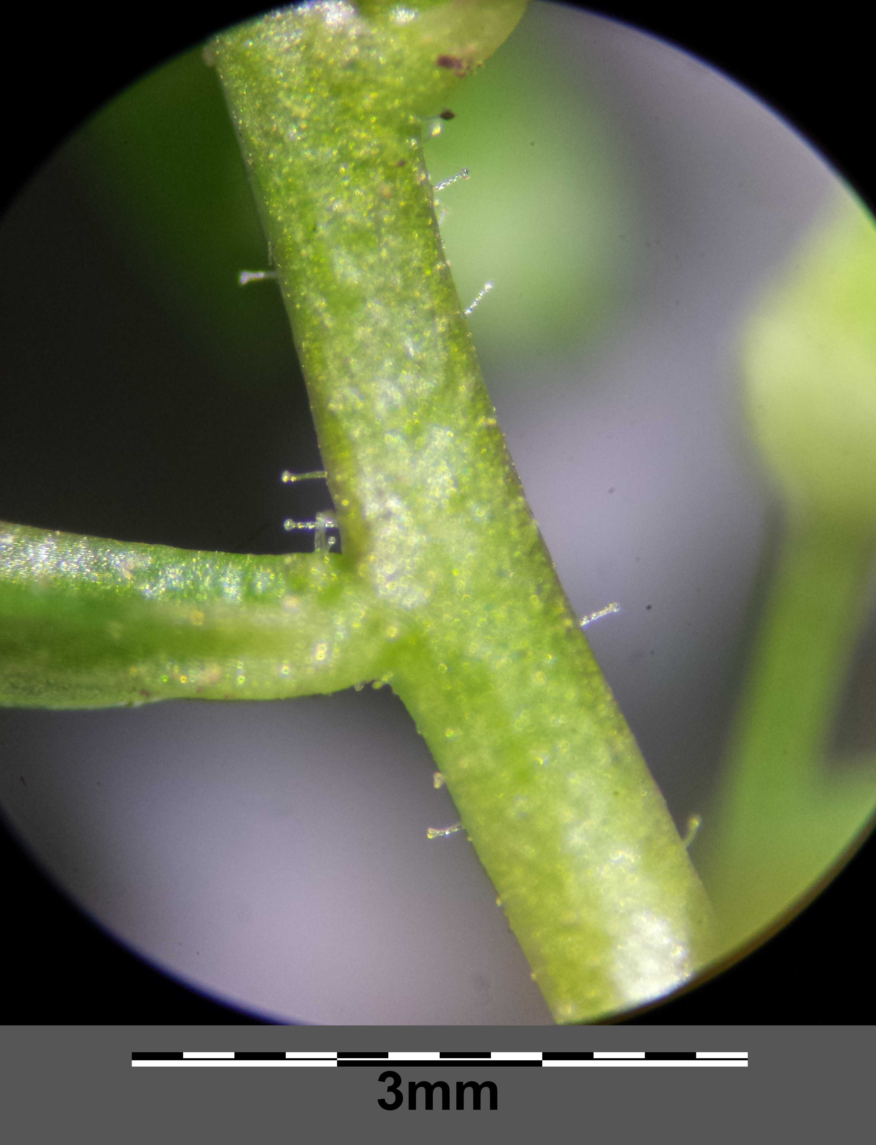 Inflorescence with glandular hairs Taxonym: Veronica catenata ss Fischer et al. EfÖLS 2008 ISBN 978-3-85474-187-9 Location: pond near Goldenes Bründl, Rohrwald, district Korneuburg, Lower Austria - ca. 225 m a.s.l. Habitat: shore of a pond